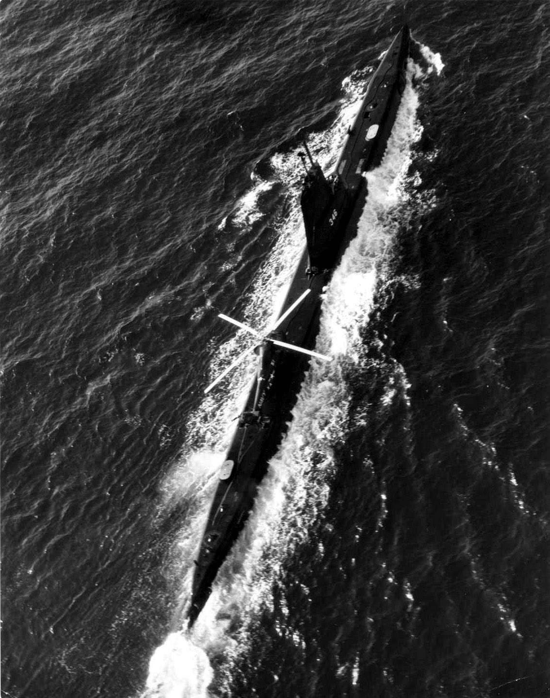 A U.S. Navy Sikorsky HSS-1 Seabat helicopter on the USS Corporal (SS-346), 1956.